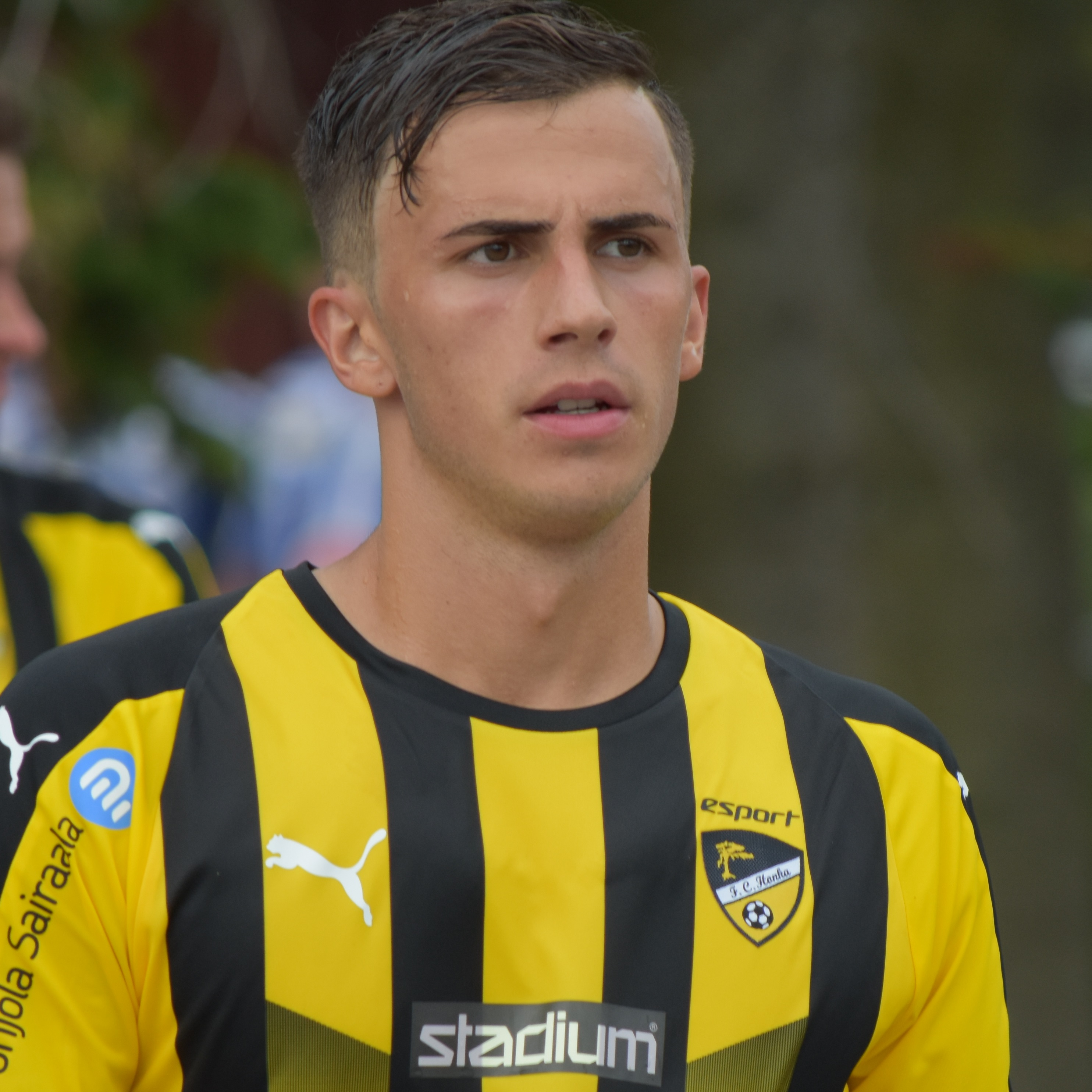 Association football player Armend Kabashi (FC Honka)